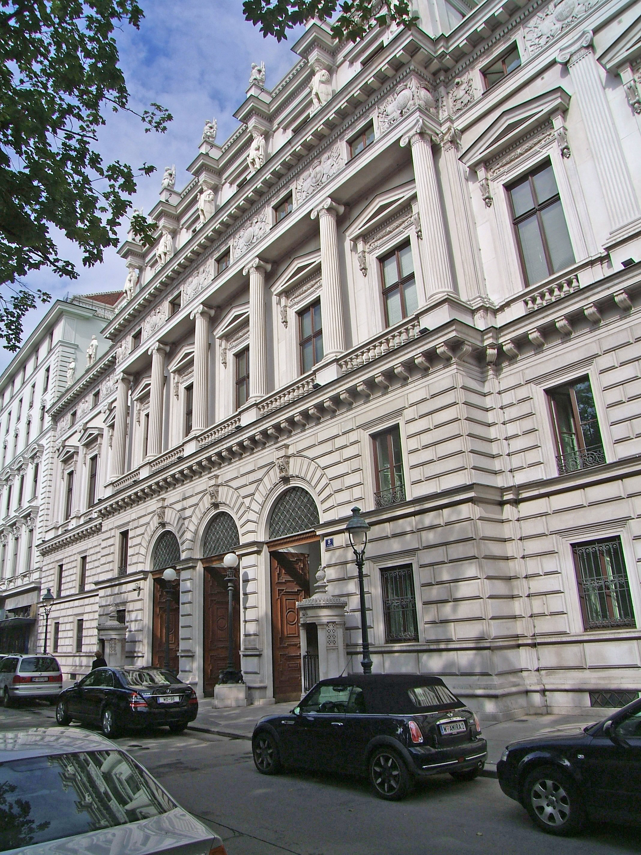 Palais archduke Wilhelm-Deutschmeister in Vienna, 1st district Parkring 8